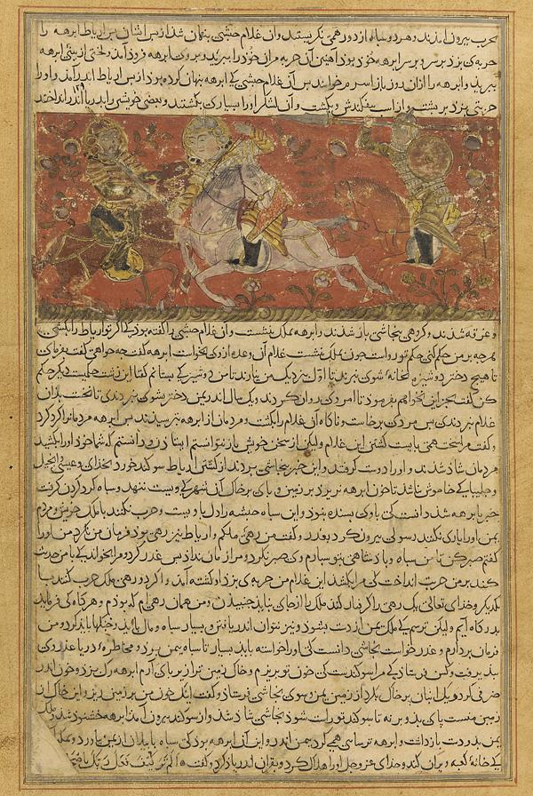 Folio from a Tarikhnama (Book of history) by Balami